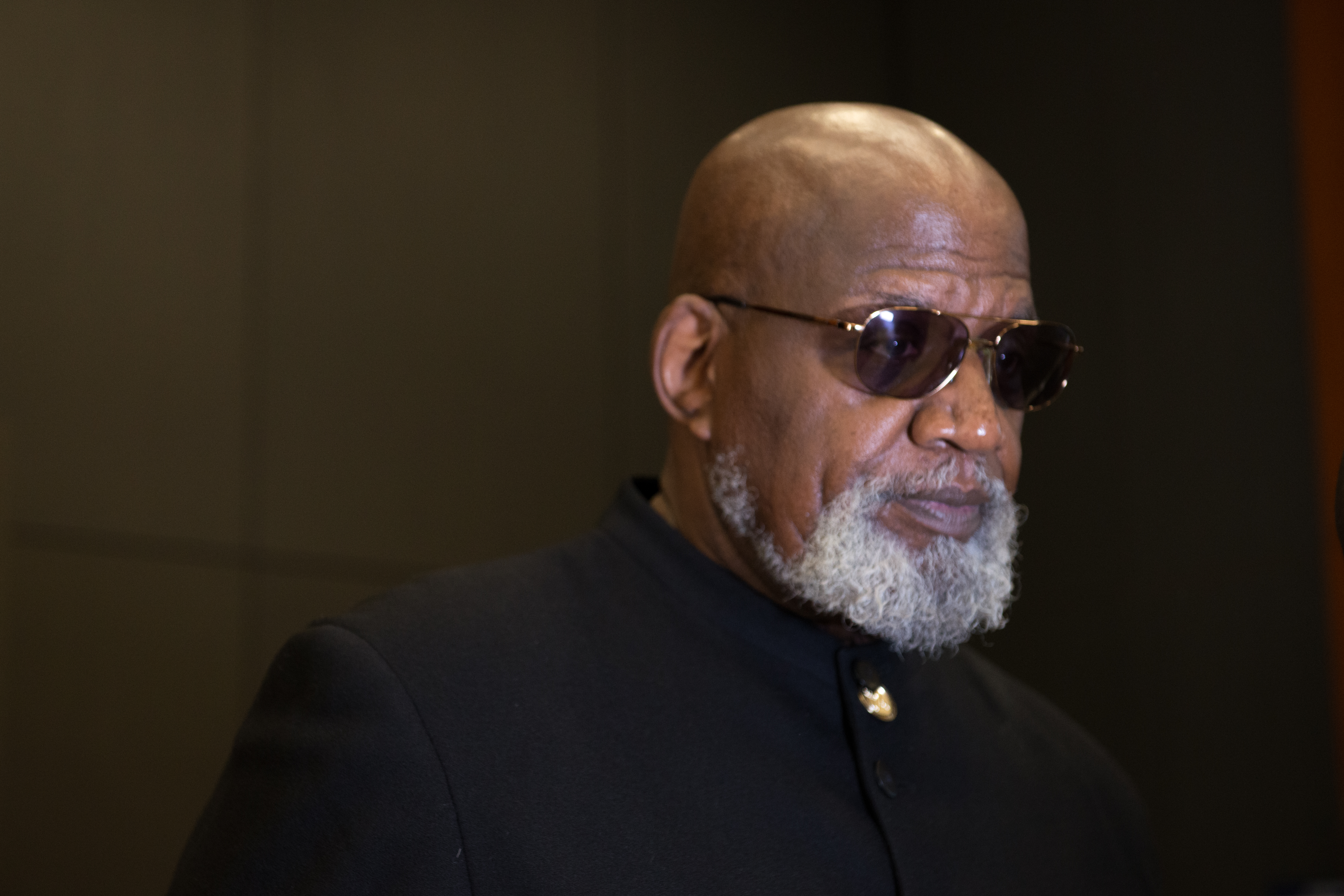 AUSTIN -- APRIL 10: The press interviews Harry Edwards, Professor Emeritus of University of California in Berkeley, after President Barack Obama's keynote address during the Civil Rights Summit at the LBJ Presidential Library. Photo by Lauren Gerson.